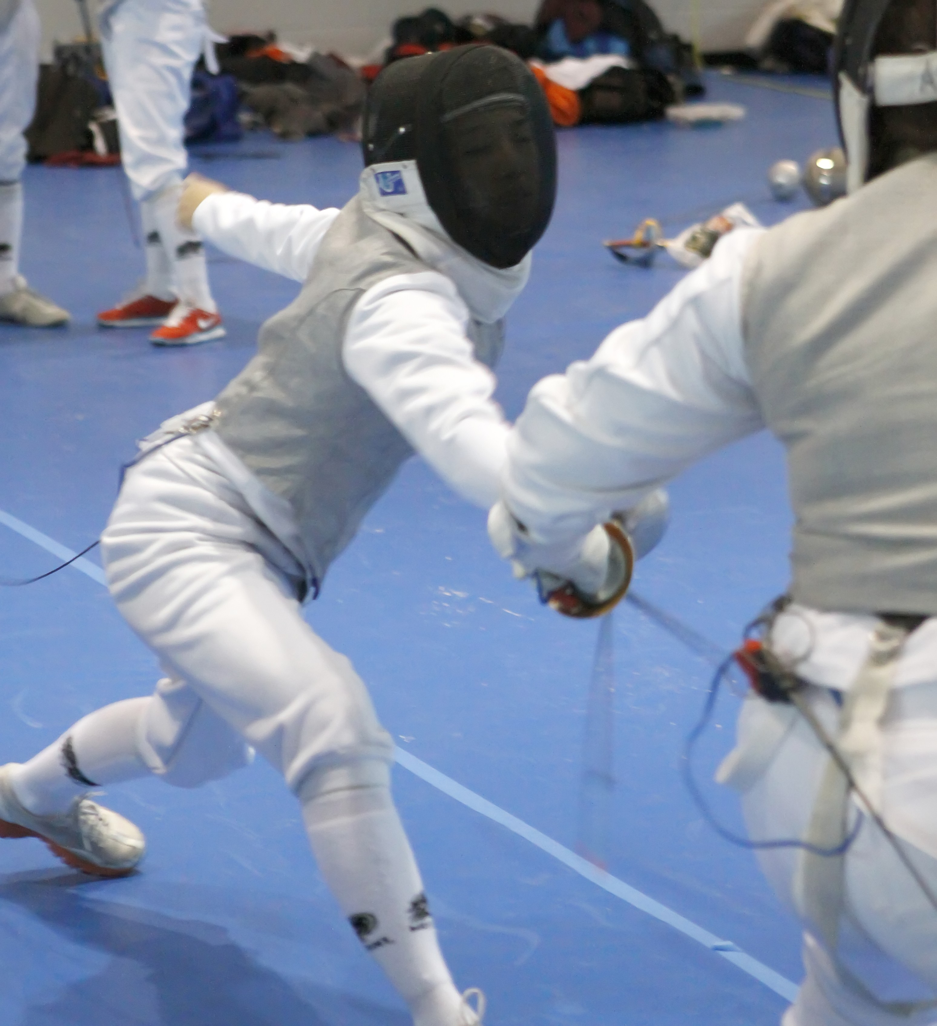 The West Point Fencing Teams hosted their annual invitational on Jan. 22 at Arvin Cadet Physical Development Center, which included match-ups against several conference rivals. Photo by Mike Strasser, West Point Public Affairs